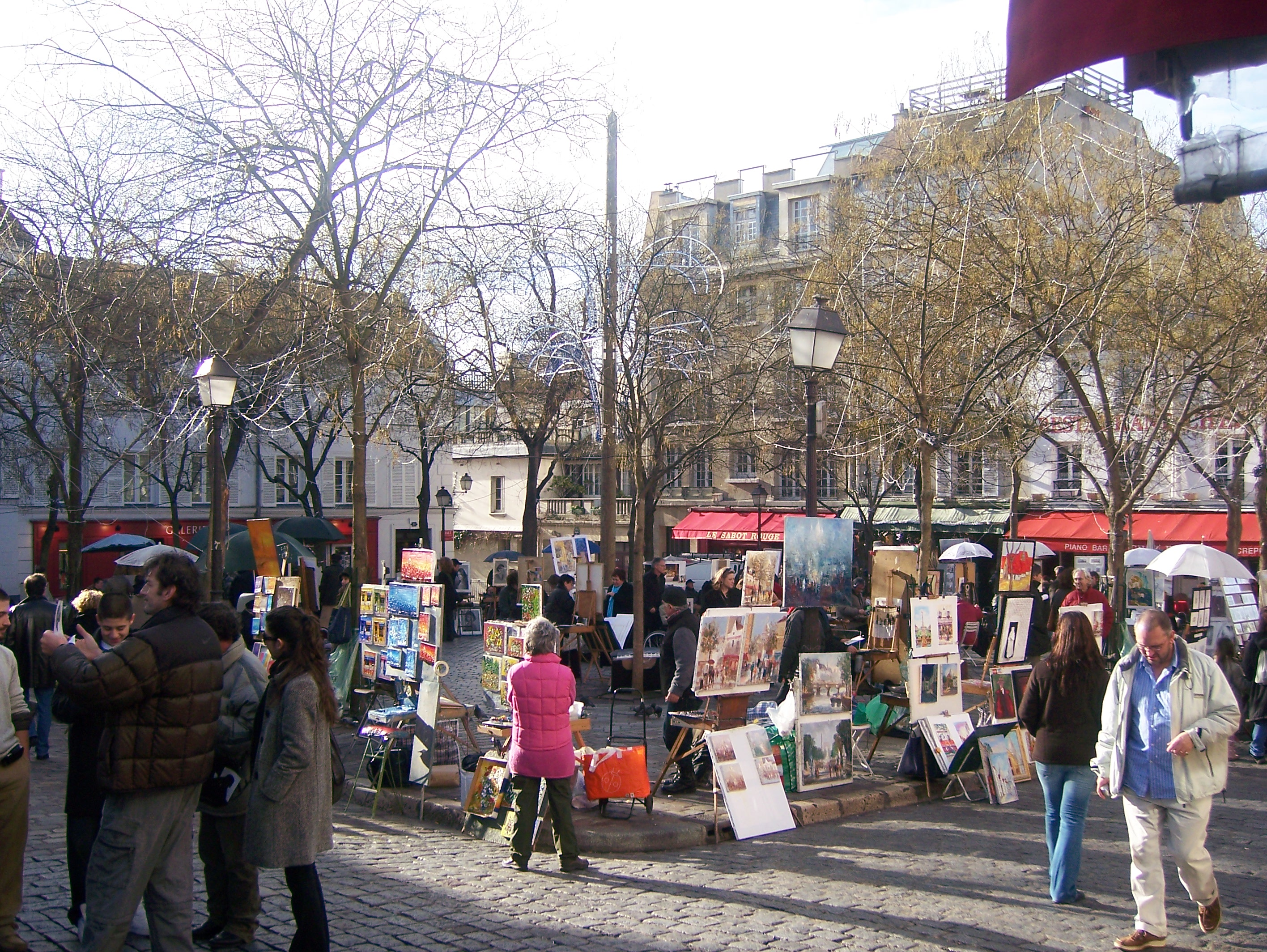 Montmartre.